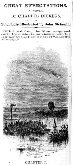 Great Expectations, the gibbet on the marshes, by John McLenan (1860)